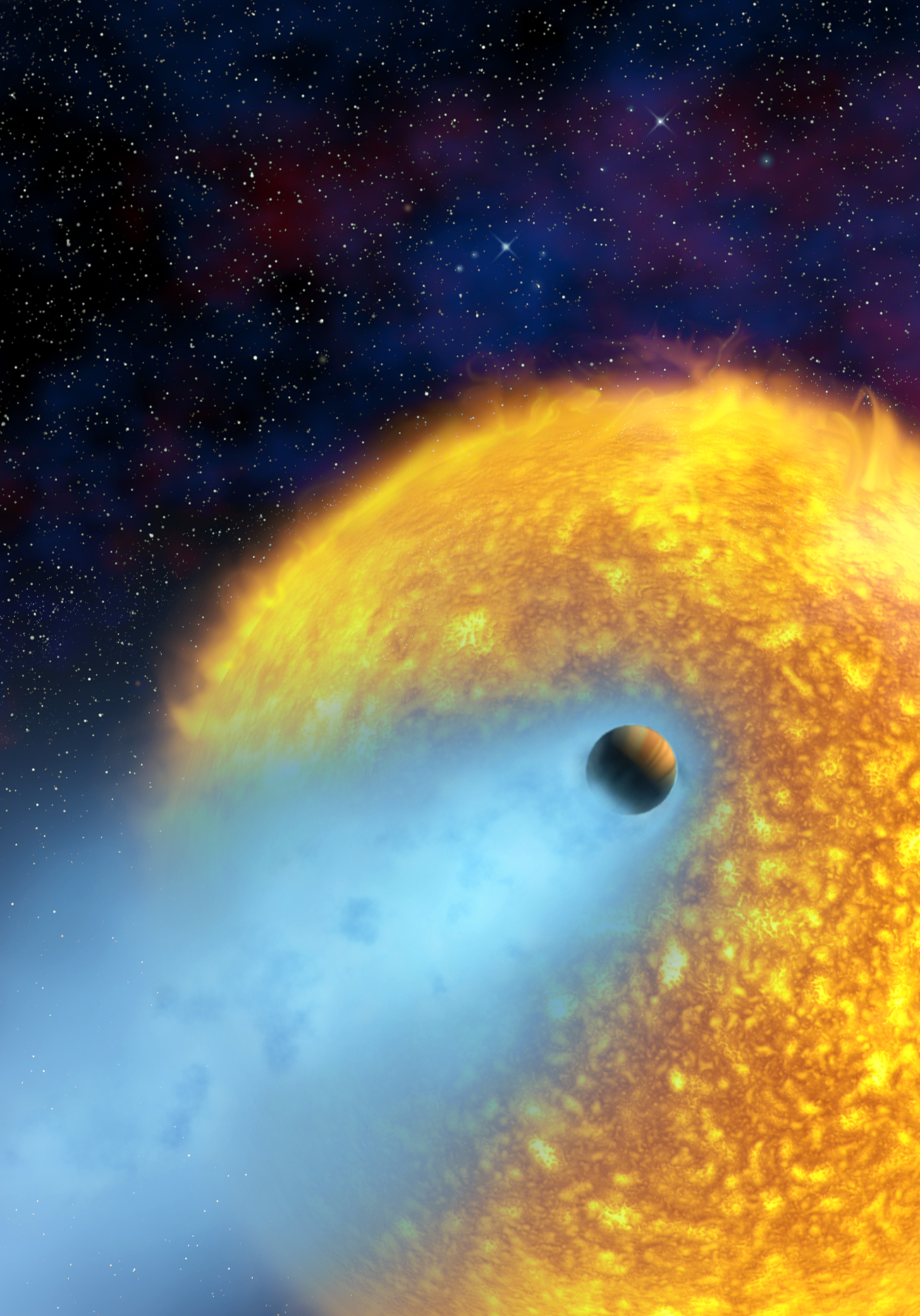 Artist's impression of the evaporating planet Osiris